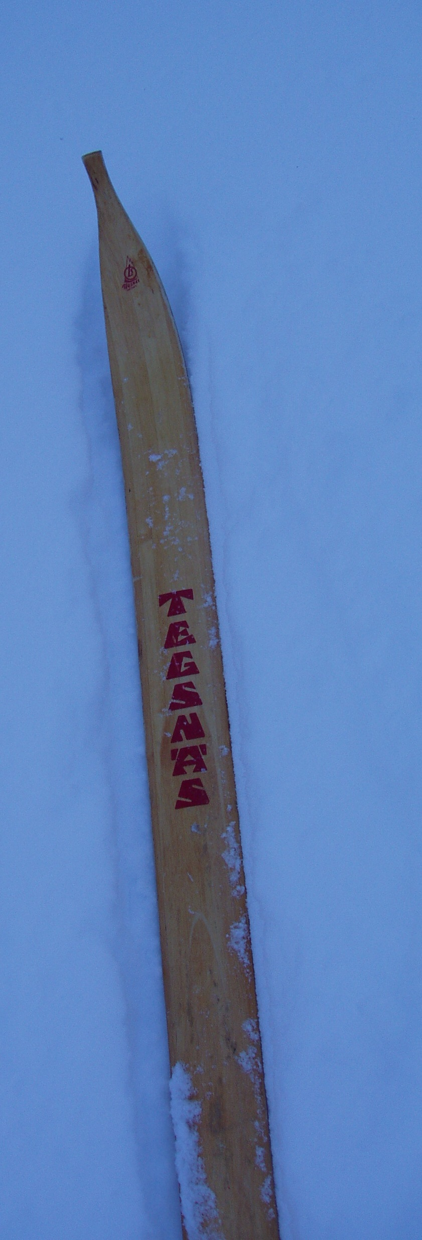 Tegsnäs ski